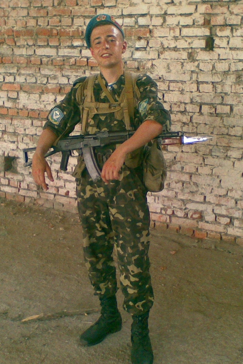 Mikola Bruy in the Army. 95th Airmobile Brigade. Summer 2009